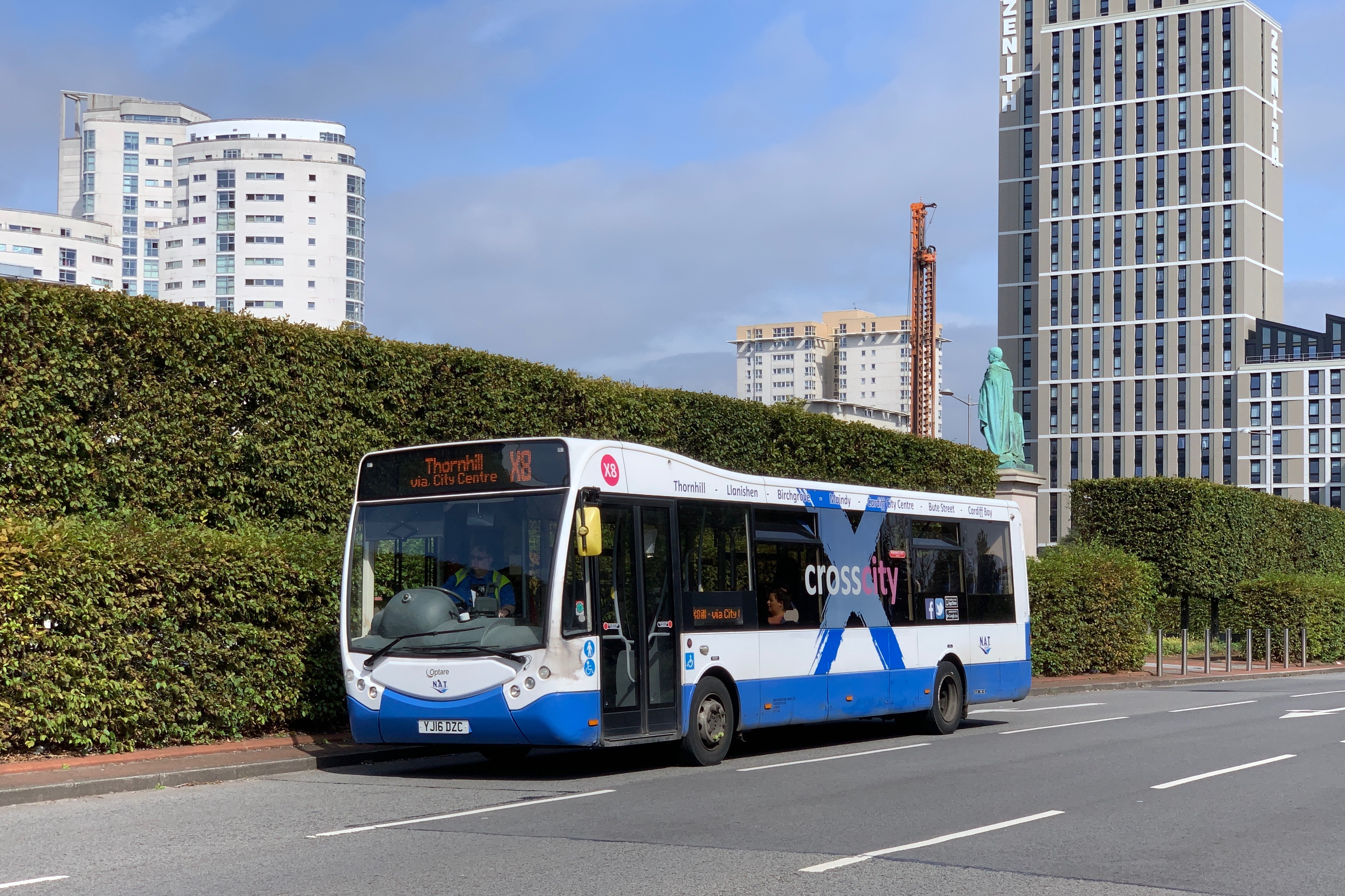 An Optare MetroCity, on the cross-city route for which it is branded. It’s a shame about the big X spoiling passengers’ views, as well looking a bit like a daubing on a plague victim’s front door. The stone dude in the background is John Crichton-Stuart, 2nd Marquess of Bute, overlooking Callaghan Square.